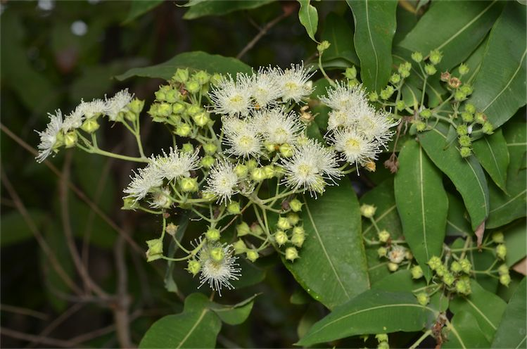 Flower buds and flowers of Angophora subvelutina, near the Nimbin-Kyogle Road, New South Wales